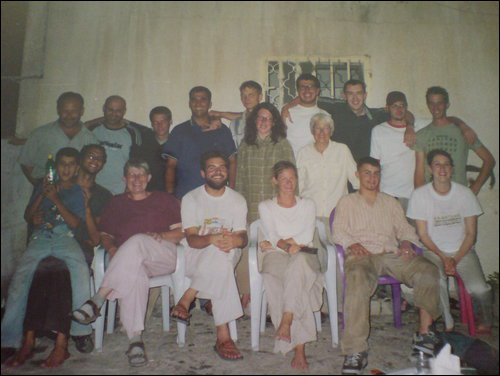 Ism tulkalm